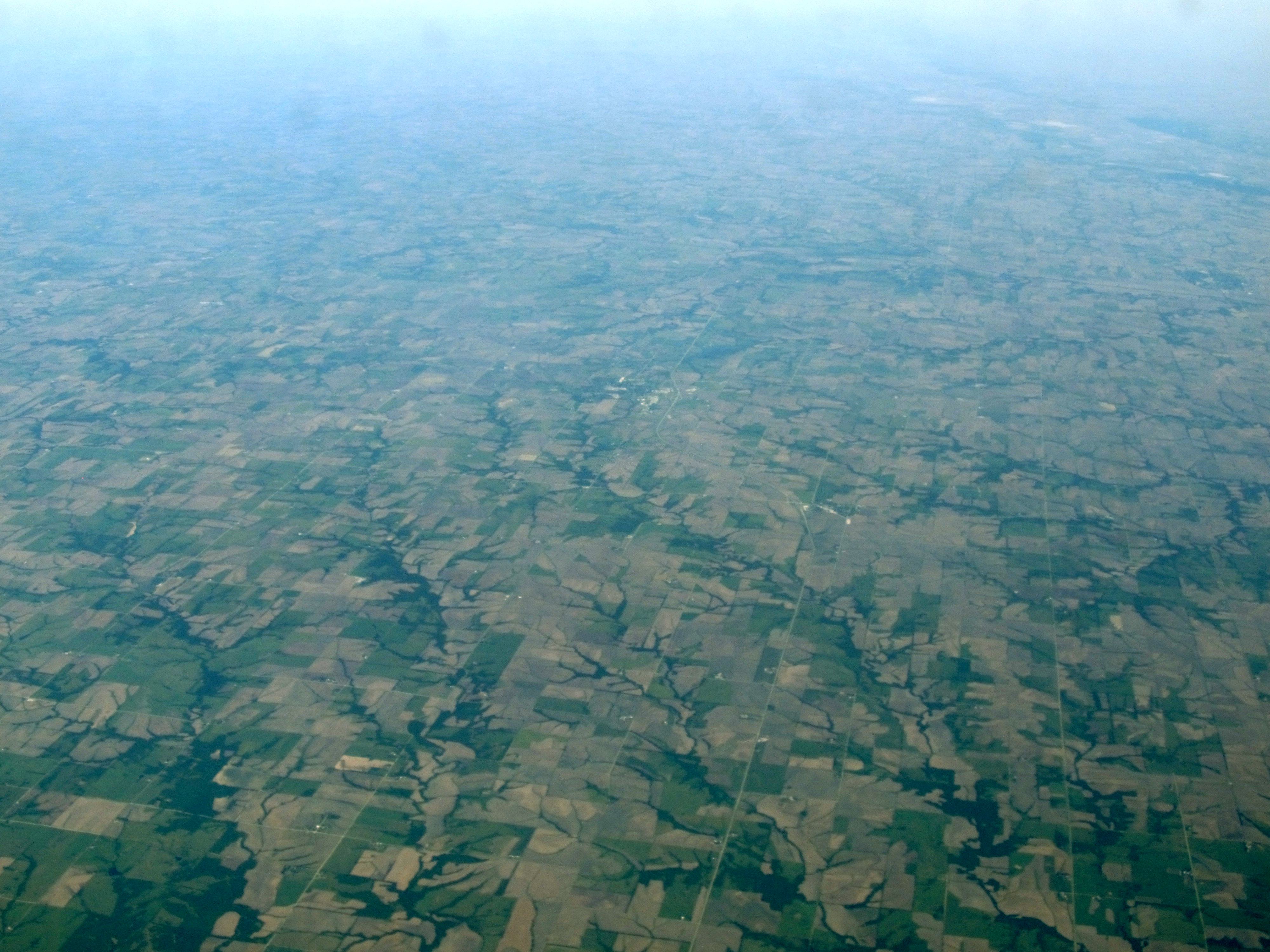 Sabetha is a city in Brown and Nemaha counties in the U.S. state of Kansas. As of the 2010 census, the city population was 2,571. The town's settlement began circa 1854, with a name reportedly derived from the word "Sabbath", the day the first settler arrived. Sabetha has more jobs than residents, due in part to the large Wenger Manufacturing plant that produces extruders and related equipment. Mac Process (formally MAC Equipment) is also a large employer in the area, manufacturing bulk material handling and air filtration equipment.